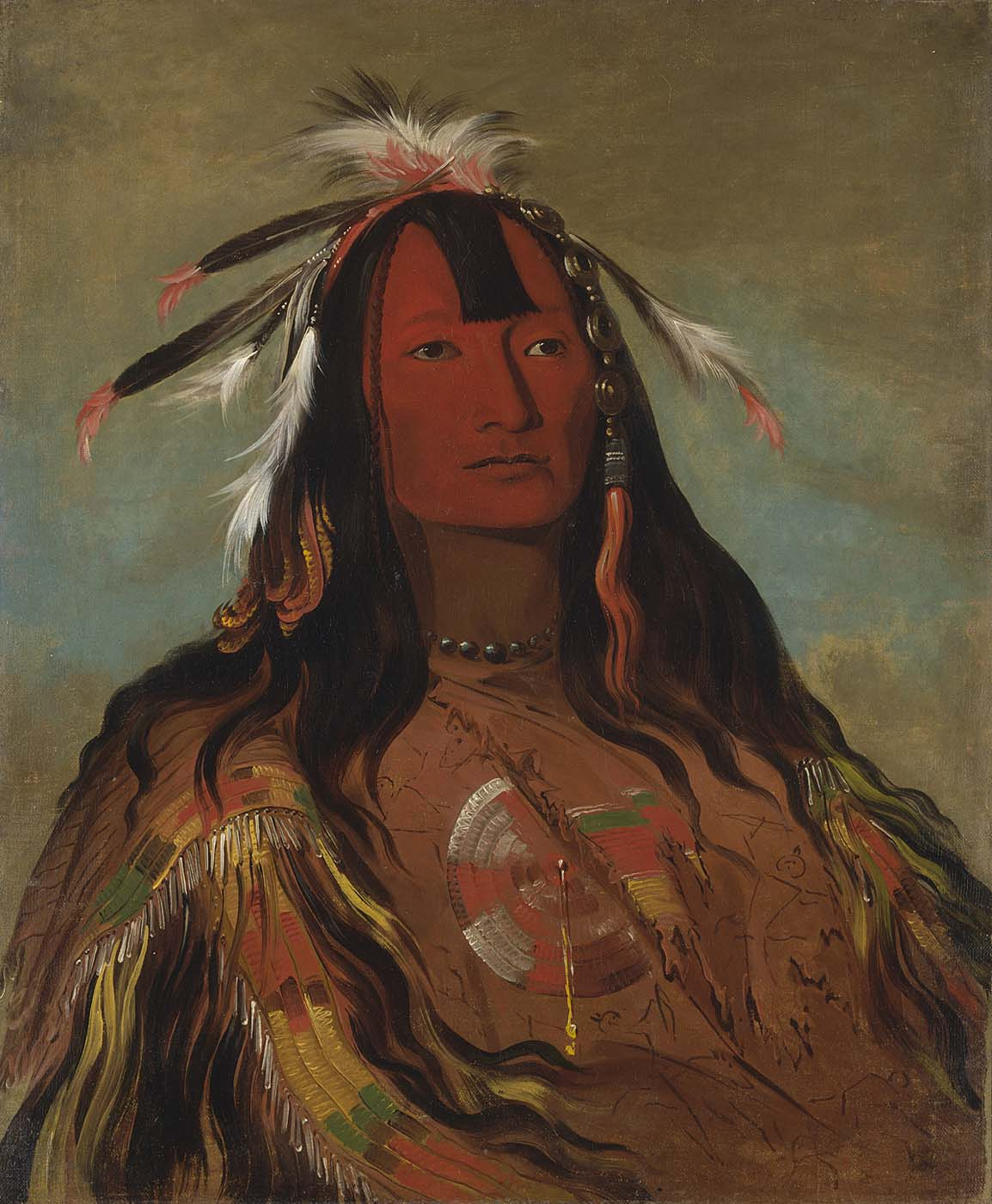 George Catlin probably painted this portrait of Hee-oh’ks-te-kin in St. Louis, or aboard the steamboat Yellowstone, in 1832. The dignified bearing of the young men and the attention to detail in the elaborately beaded tunics and beaded and feathered hair reflect Catlin’s regard for his subjects. Native Americans, he wrote, were “the finest models in all Nature, unmasked and moving in all their grace and beauty.” Catlin's faithful effort to document the life of these peoples in the early nineteenth century captures those impressive cultures as they were before their world was shattered.